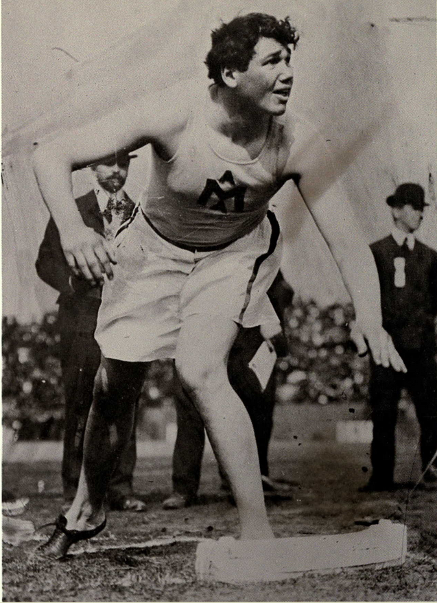 Photograph of Ralph Rose